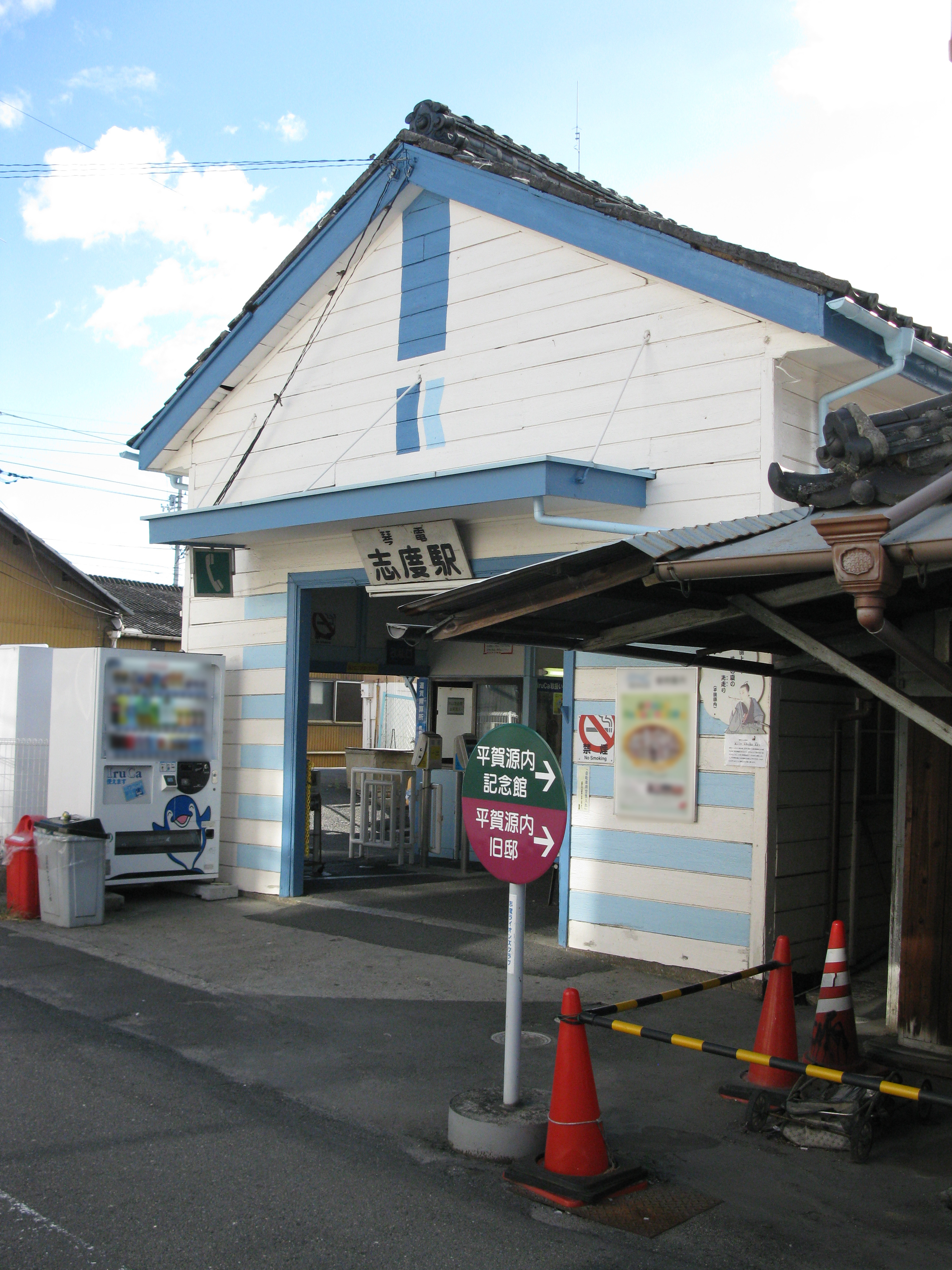 Kotoden-Shido Station building (Takamatsu-Kotohira Electric Railroad(Kotoden) Shido Line)